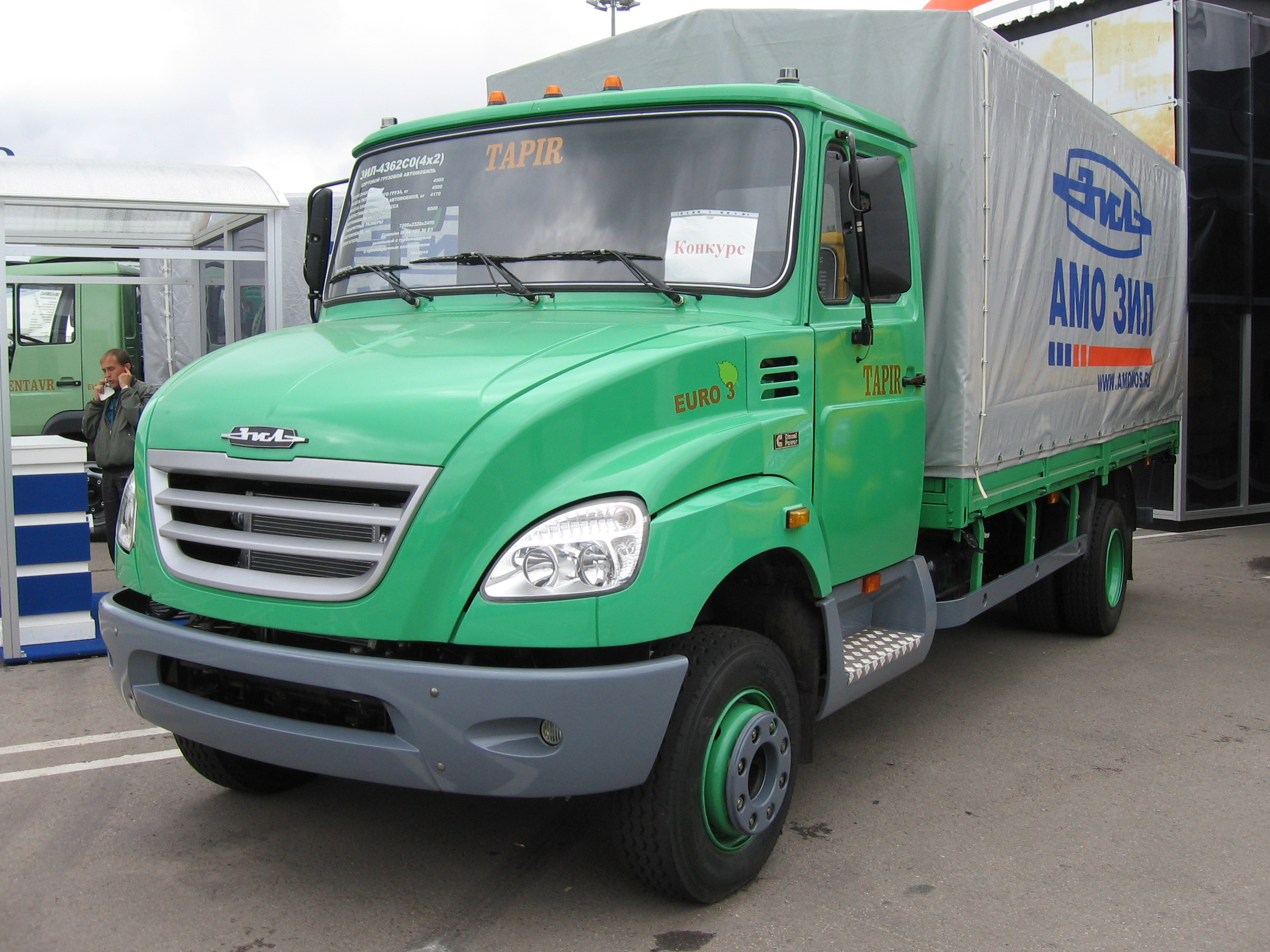 Zil truck russia moscow MIMS 2006